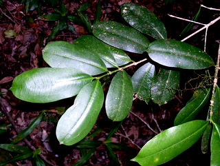 Baloghia inophylla, Allyn River, Barrington Tops